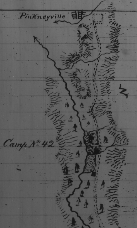 Journal of the march of a detachment of U. S. recruits en route for Oregon from Coeur d'Alene to Colville Depot commanded by 1st Lt August V. Kautz, 4th Inf, Colville Valley, September 28, 1860. This is a partial map of the route of march along the Fort Walla Walla Fort Colville Military Road by Kautz and 150 recruits. Map shows the last five miles of the route.